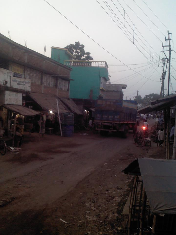 Garakupi market needs it real picture to upload.